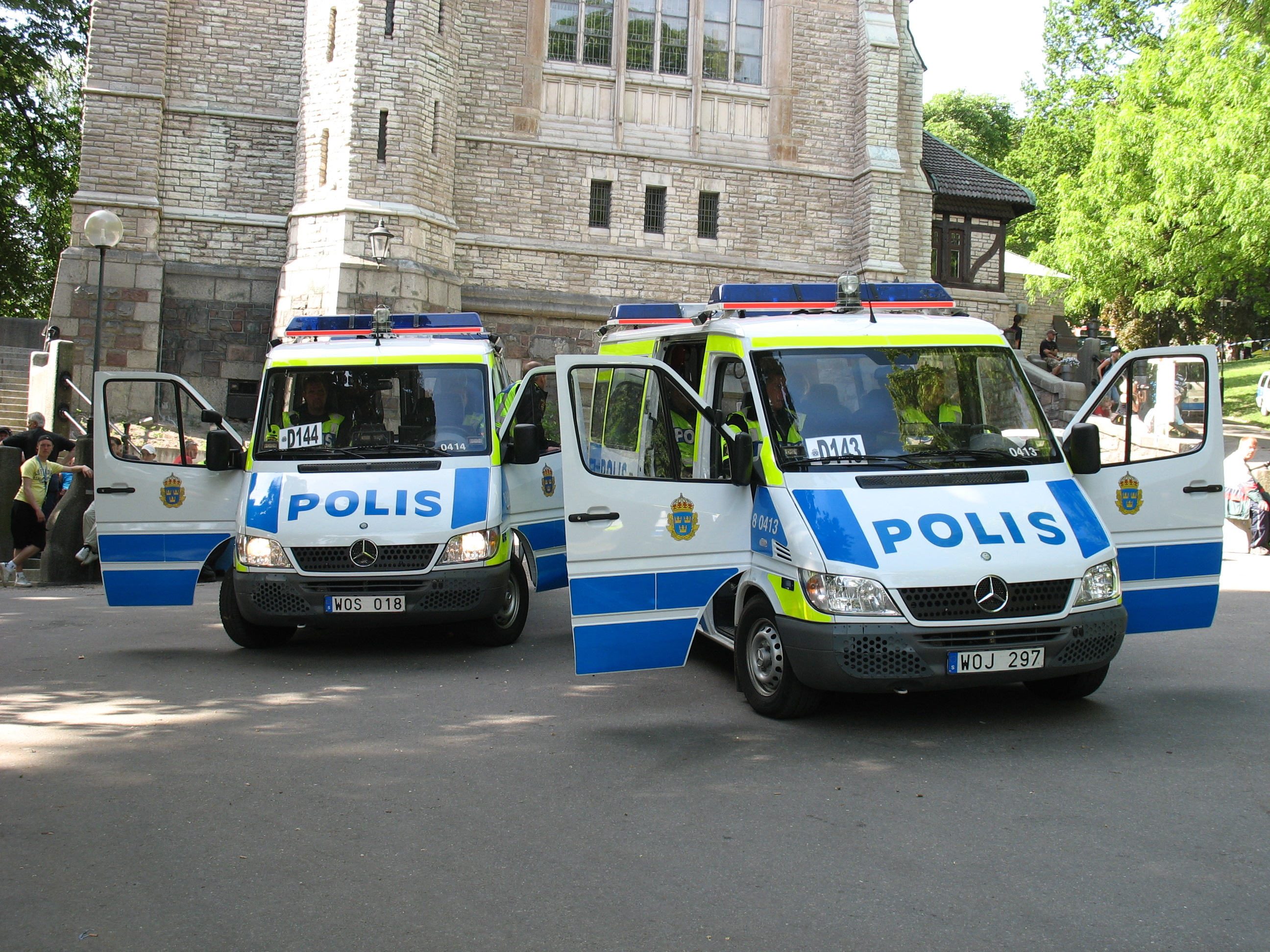 Two vans of the Stockholm Police at a nationalist demonstration in Stockholm on National Day, 2007.